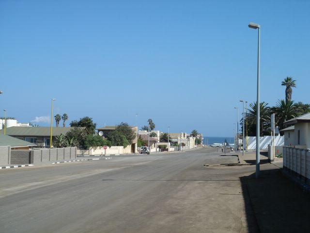 road in Swakopmund, Namibia. Heading towards the ocean.